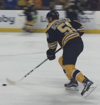 Tim Schaller at warmups on December 1, 2016 at TD Garden.